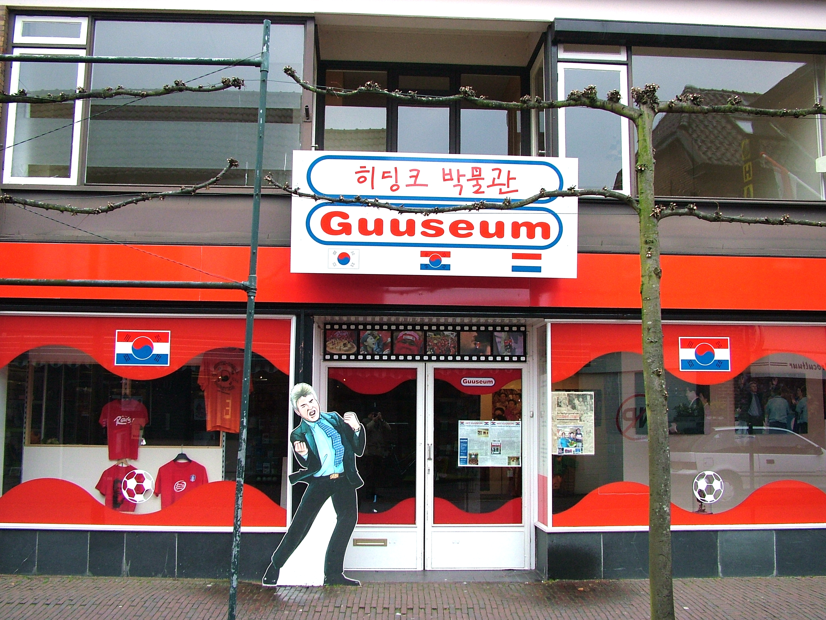 Guuseum (museum about Guus Hiddink), in his birth place Varsseveld (Oude IJsselstreek, the Netherlands). It is now defunct; the building is used by the Red Cross.